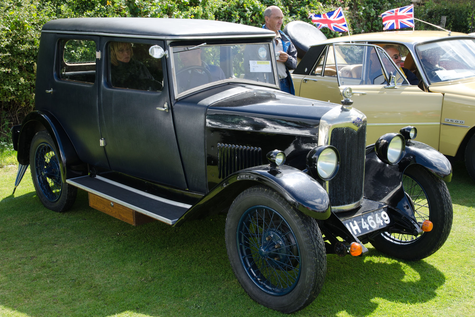 1928 Riley 9 Monaco Saloon (DVLA) manufactured 1928, 1087 cc Burley in Wharfedale Classic Vehicle Show 17/08/2014